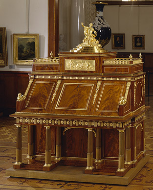 Mahogany bureau with a figure of Apollo. Veneering: outside - mahogany; inside - mahogany, hornbeam and palisander. Carcass: oak, cedar and solid mahogany Ormolu and brass